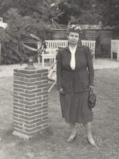 Esther Malling Pedersen (1885-1968). Redaktør / editor, forfatterinde / author. Venstre / the Liberals. Landstinget 1936-53.